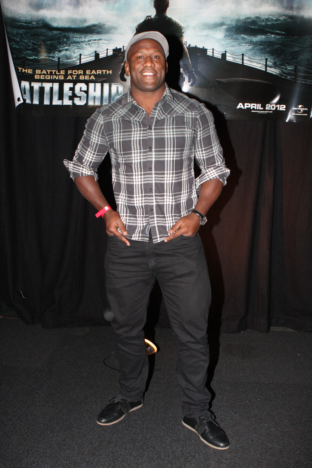 Wendell Sailor at BATTLESHIP premiere at Luna Park